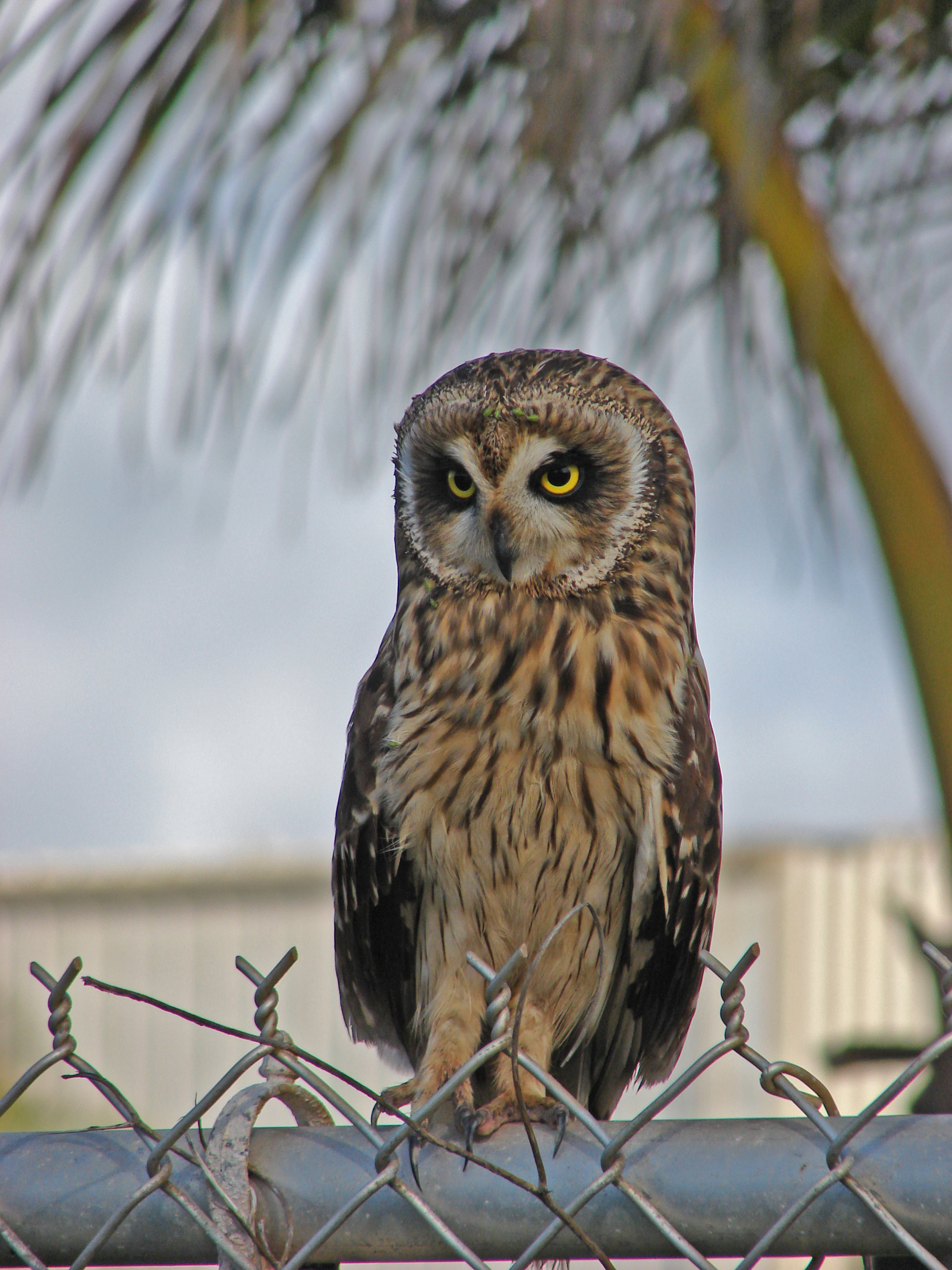 Pueo Asio flammeus. Location: Maui, Kanaha Beach